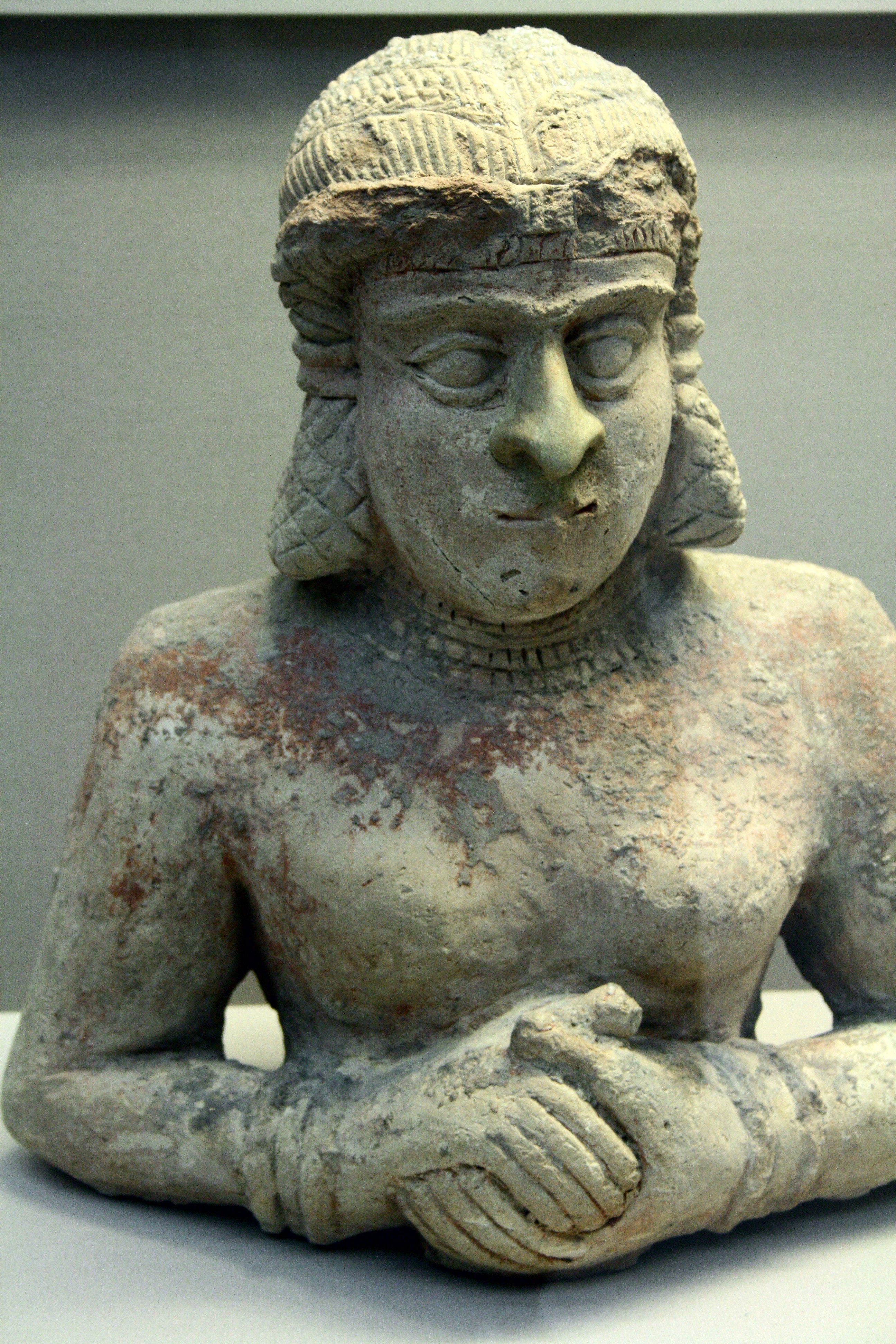 Terracotta statue of a woman. Old Babylonian (2000-1700 BC), with traces of red Paint. British Museum